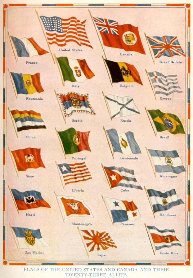 Flags of the WW1 allies, with focus on North America